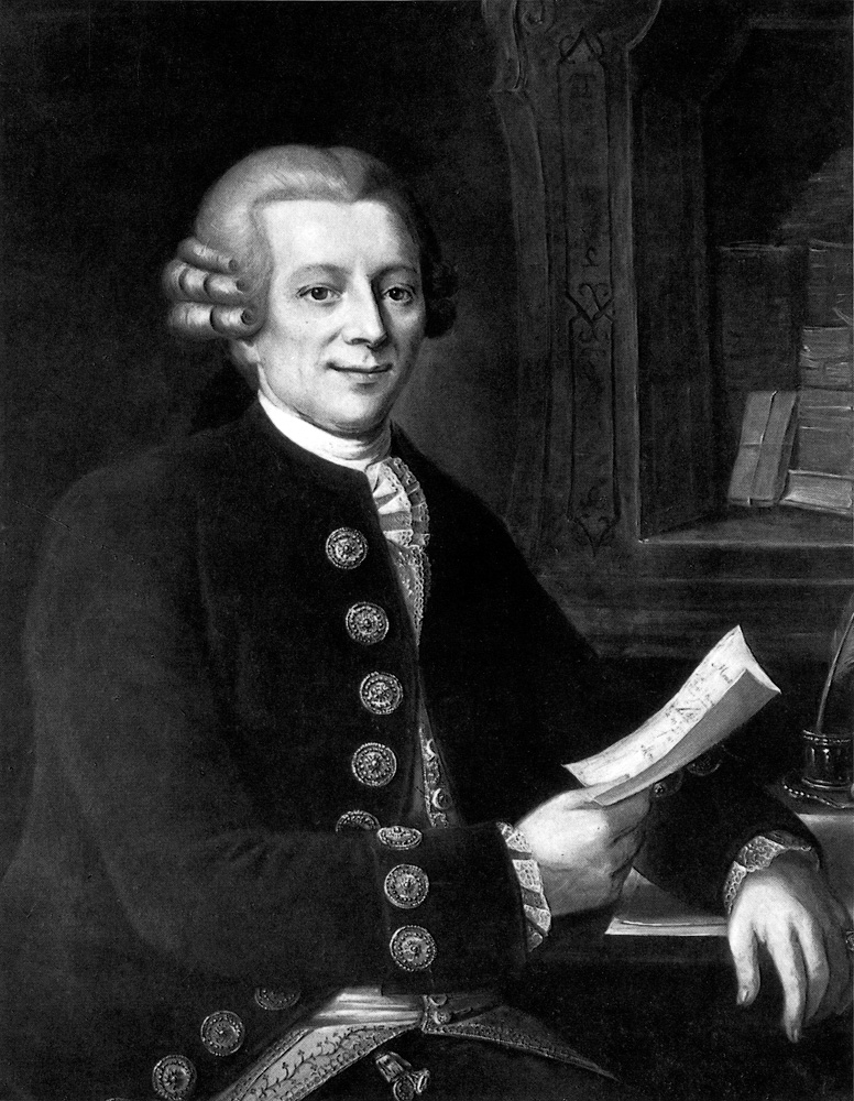 Frankfurt on the Main: Portrait of Simon Moritz Bethmann (1721–82)